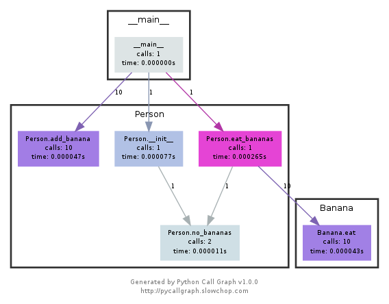 A Call Graph generated by pycallgraph